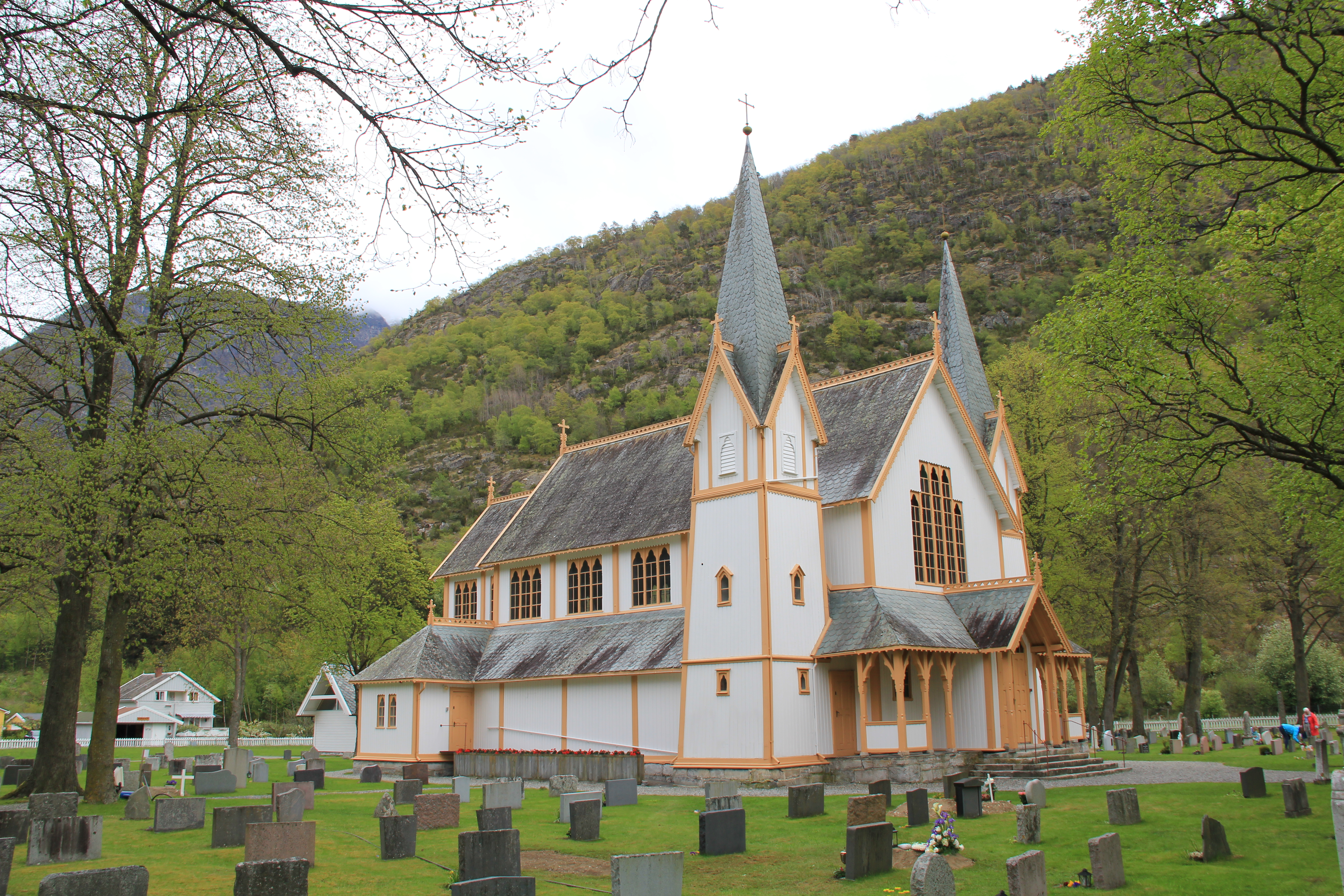 Hauge kirke, church in Lærdal